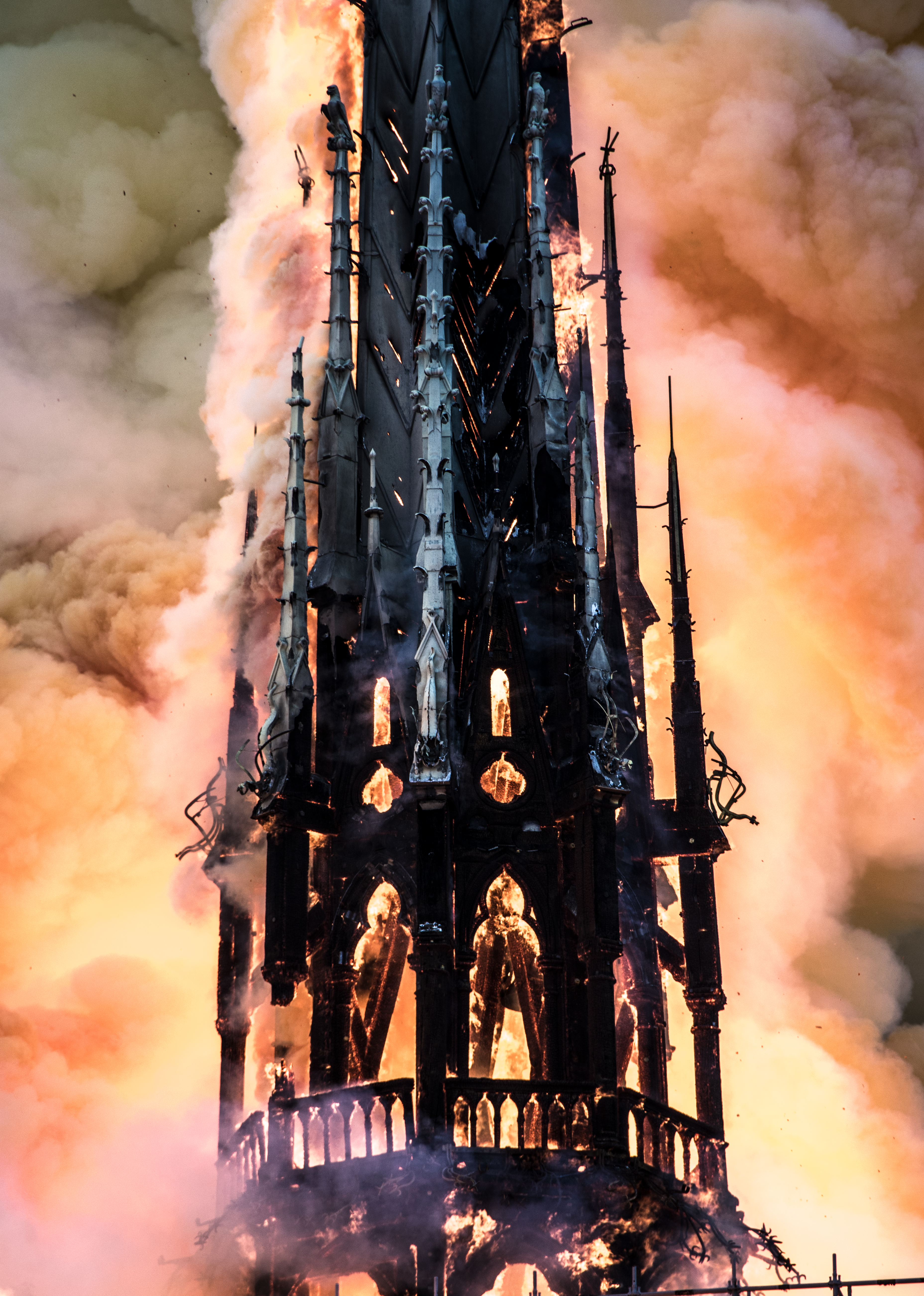 Photography of Notre Dame's spire taken from the Saint Louis bridge during the 15th April 2019 fire.